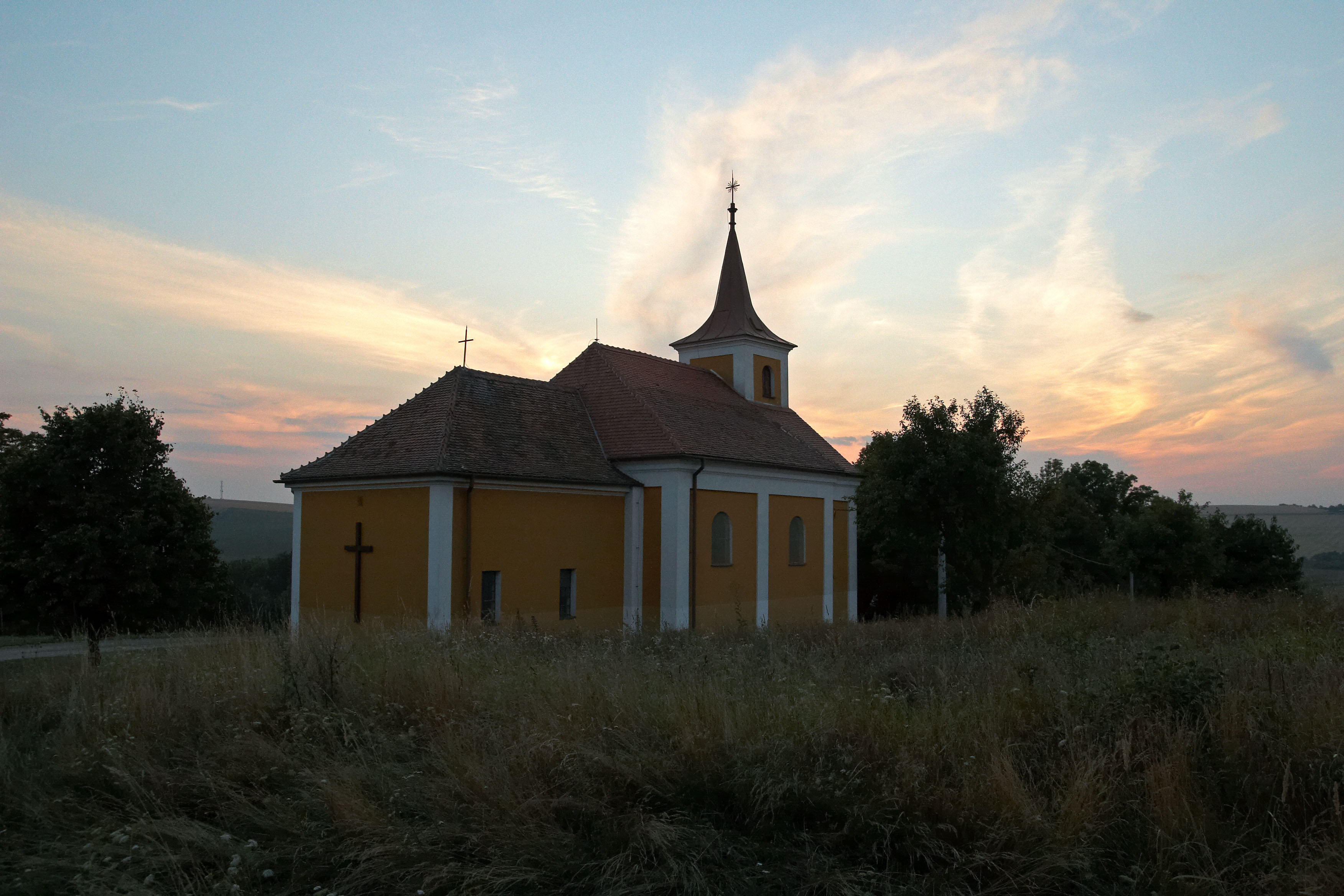 Němčany, Lutršték, Pilgrimage chapel of Seven Sorrows’ Virgin Mary